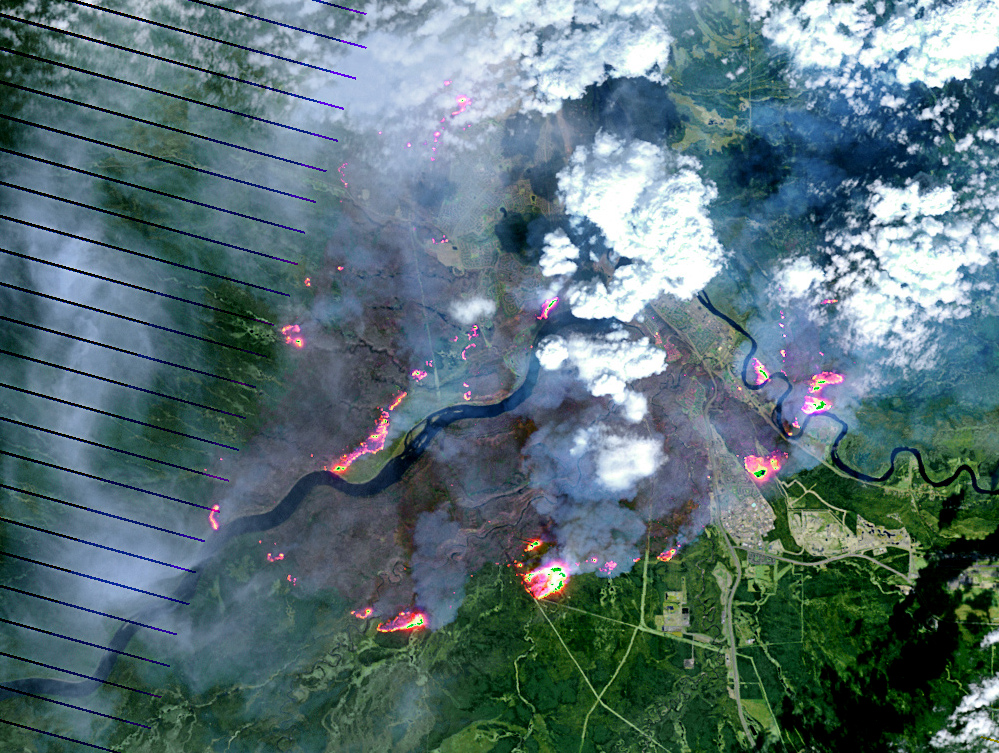 On May 4, 2016, the the Enhanced Thematic Mapper Plus (ETM+) on the Landsat 7 satellite acquired this false-color image of the wildfire that burned through Fort McMurray in Alberta, Canada. The image combines shortwave infrared, near infrared, and green light (bands 5-4-2). Near- and short-wave infrared help penetrate clouds and smoke to reveal the hot spots associated with active fires, which appear red. Smoke appears white and burned areas appear brown.